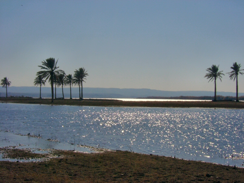 The Euphrates River in Iraq possibly central or southern Iraq since Date palms can also be seen